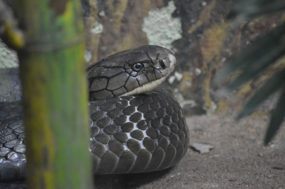 King Cobra in India